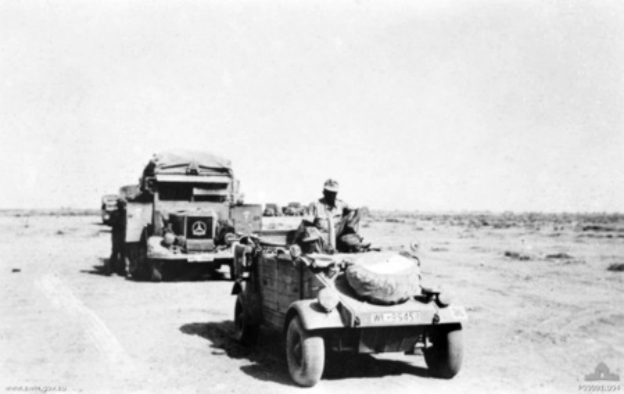 A convoy of Afrika Korps vehicles moving throught the desert. The vehicles normally travelled at intervals of approximately one hundred metres in case of an air attack, which, in the case of this photograph, was apparently unlikely. The convoy is lead by a VW Kübelwagen.